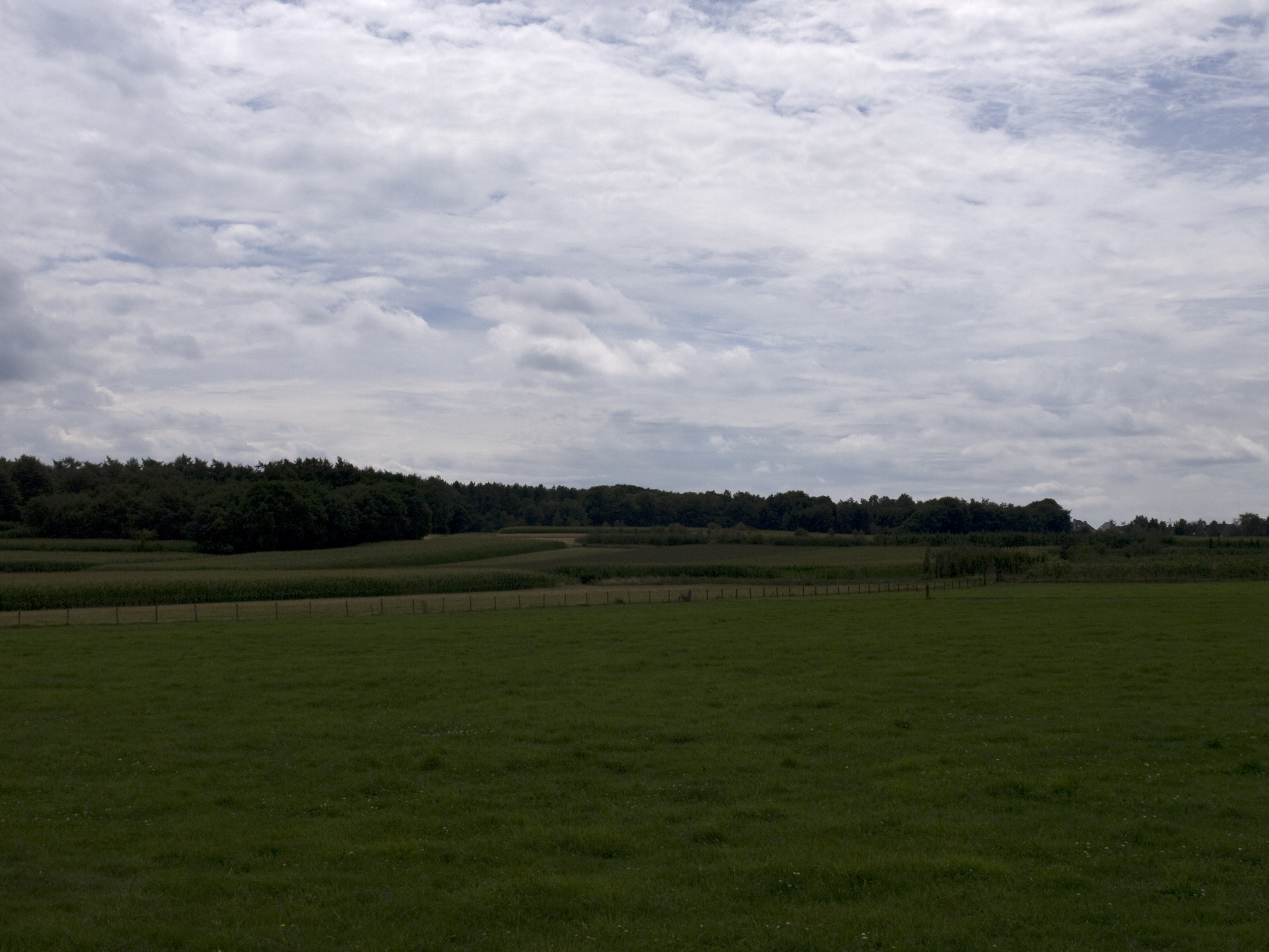 Trekvogelpad; view from Achterberg in the direction of Rhenen